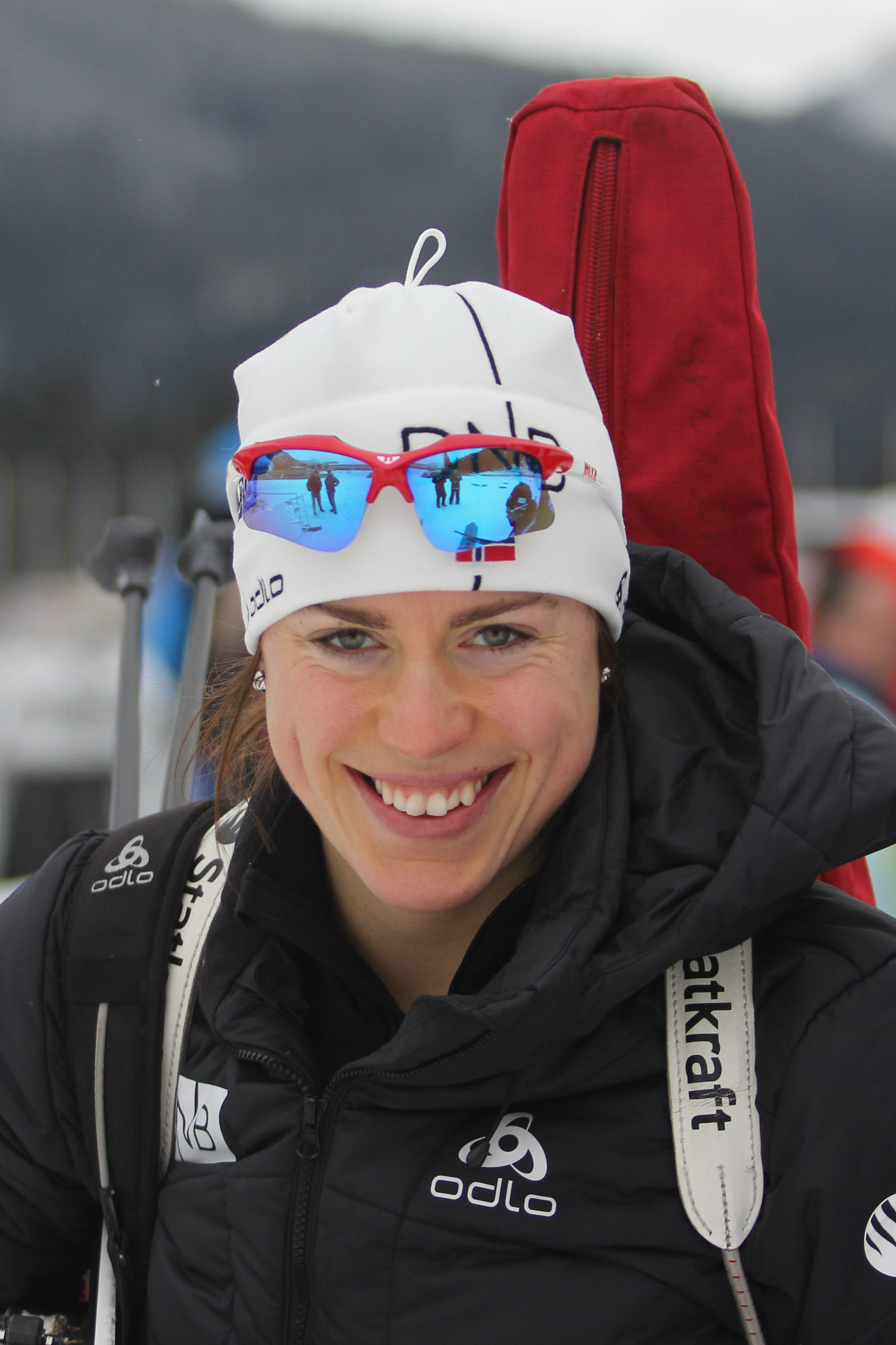 Synnøve Solemdal at Biathlon Hochfilzen 2011